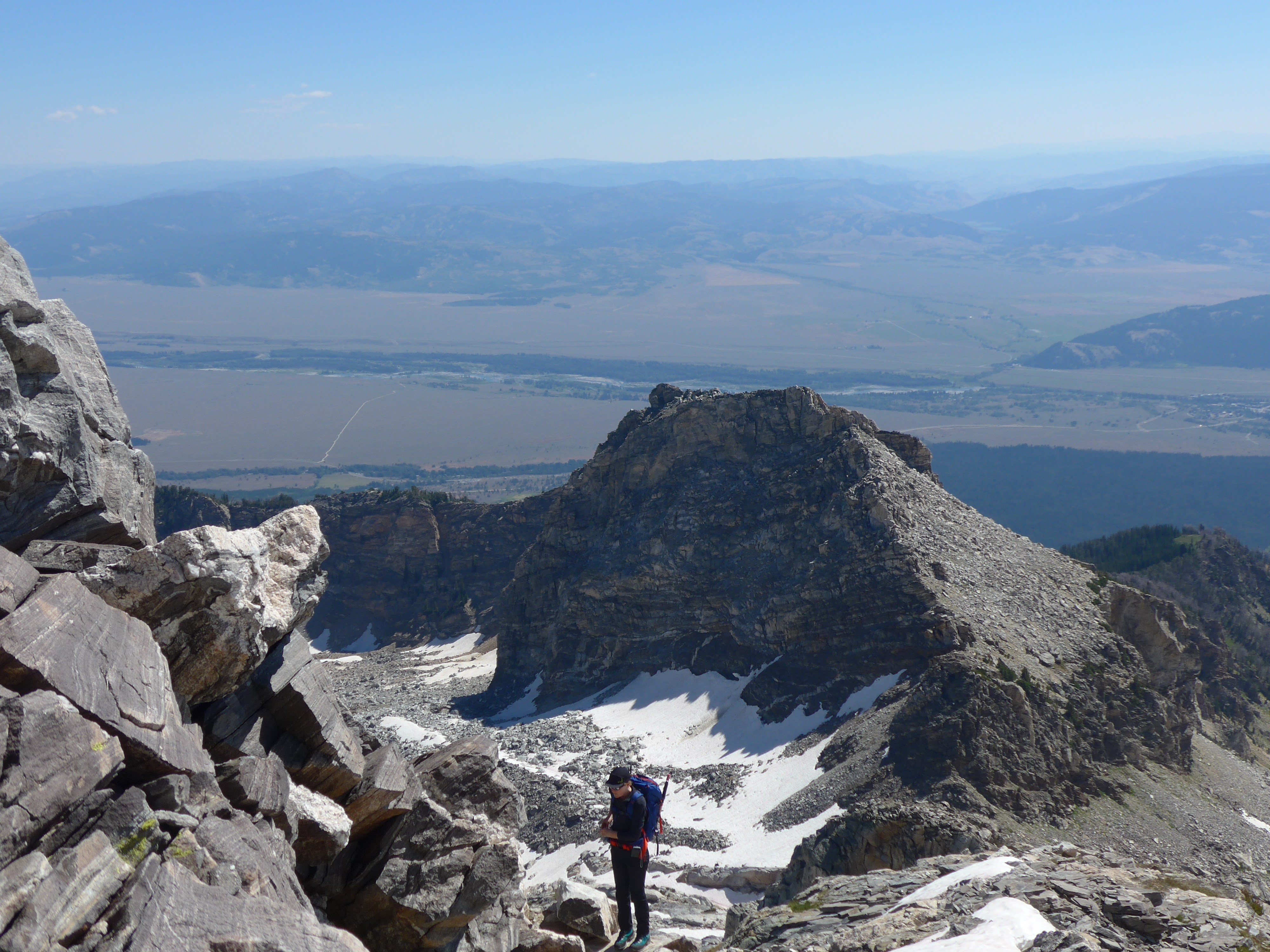 At east ridge of Buck Mountain, in the background Peak 10696 and Jackson Hole